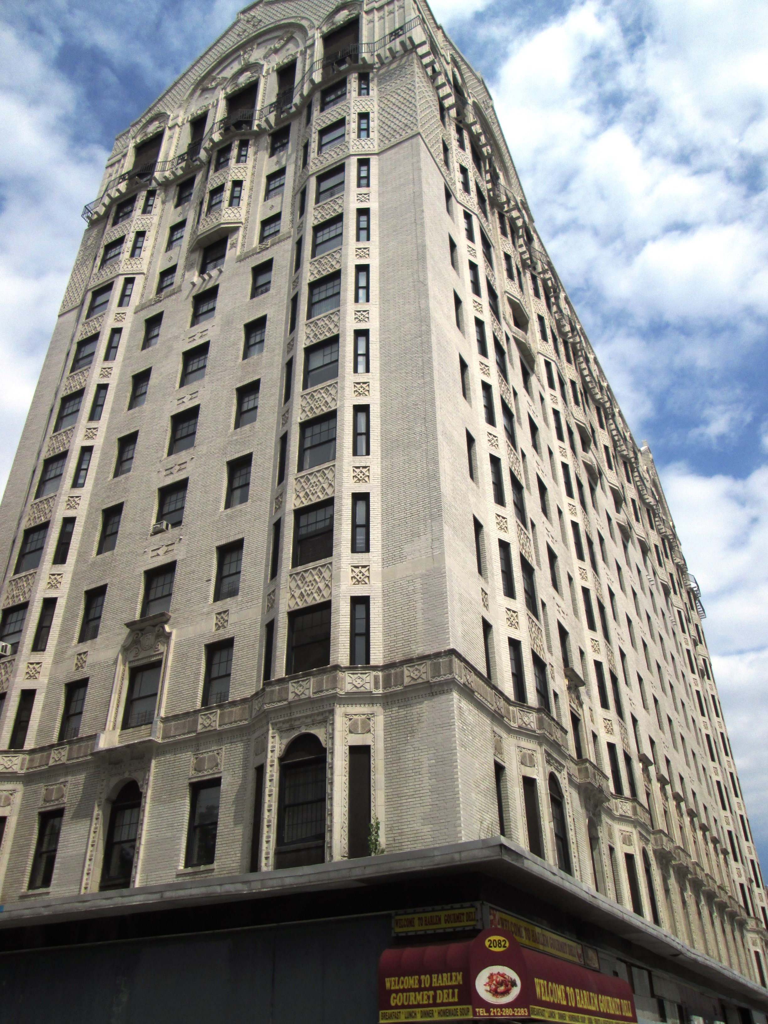 The Hotel Theresa, located at 2082-96 Adam Clayton Powell Jr. Boulevard between West 124th and 125th Streets in the Harlem neighborhood of Manhattan, New York City, was, in the mid-20th century, a vibrant center of African American life in the area and the city.It was built in 1912-13 as an apartment hotel and was designed by the firm the firm of George & Edward Blum, who specialized in designing apartment buildings. It is now an office building known as Theresa Towers. (Source: Designation Report)